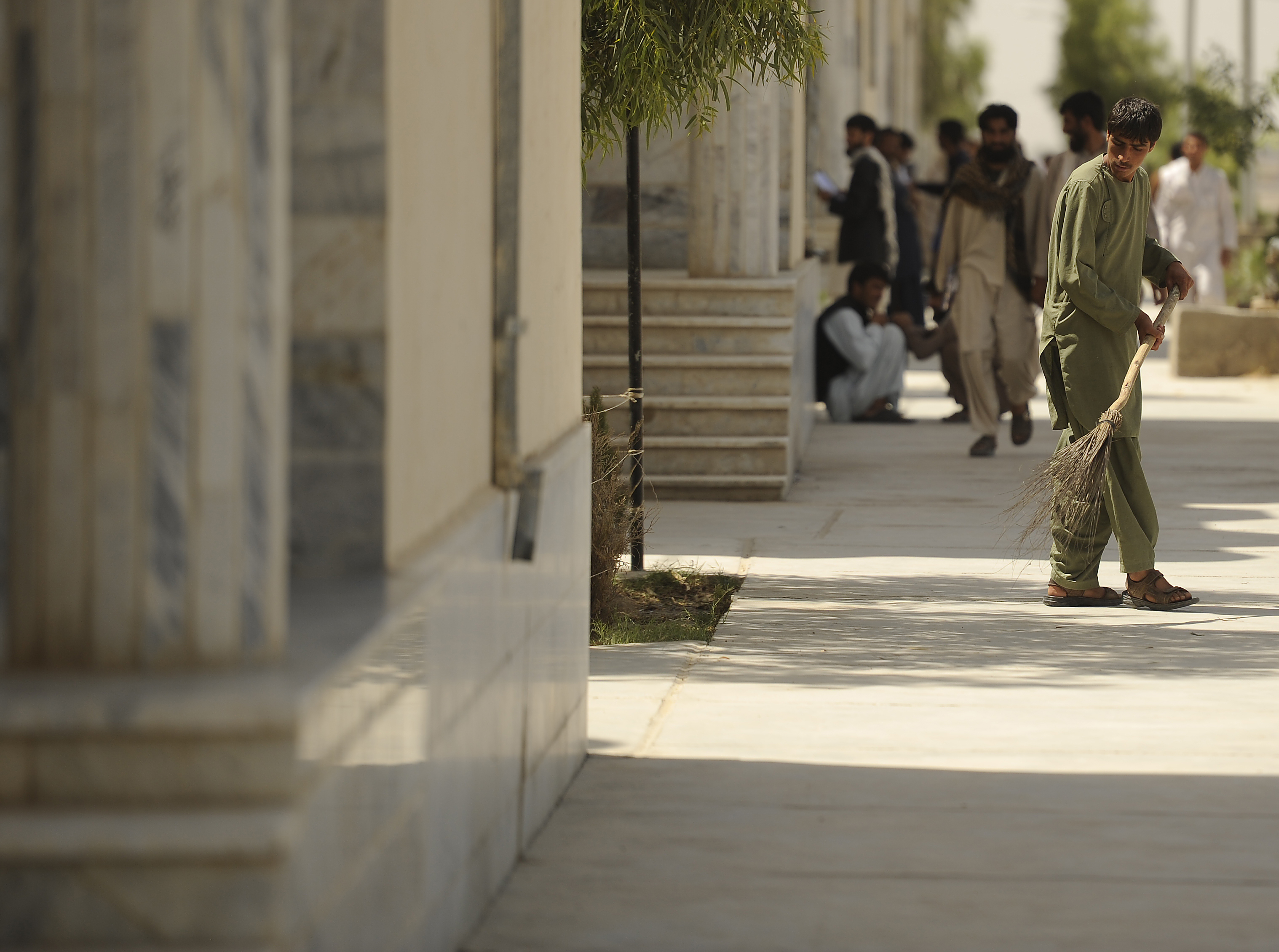 A Kandahar University student sweeps the sidewalk while members of Kandahar Provincial Reconstruction Team conduct a site survey at Kandahar University June 6, 2012 in Kandahar, Afghanistan. Kandahar PRT is a joint team of U.S. Air Force, Army, Navy service members and civilians deployed to the Kandahar province of Afghanistan to assist in the effort to rebuild and stabilize the local government and infrastructure. (Photo ID: 596438)